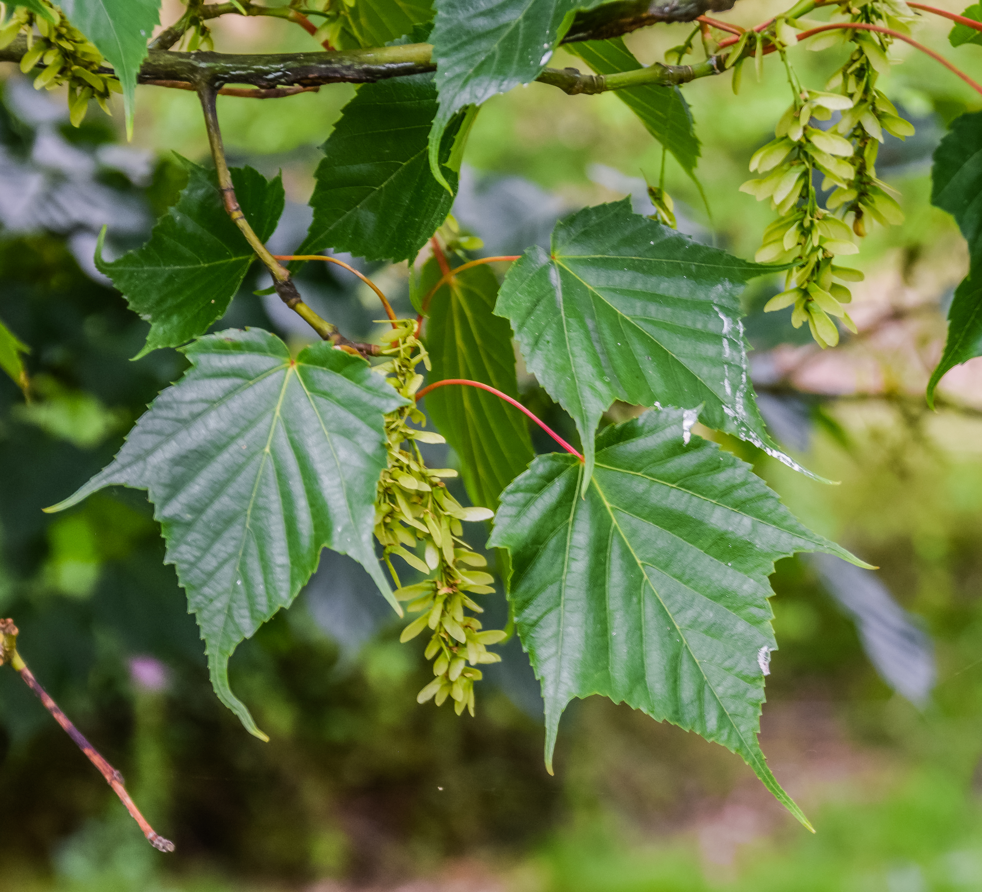 Acer caudatifolium in Hackfalls Arboretum, Gisborne Region, New Zealand